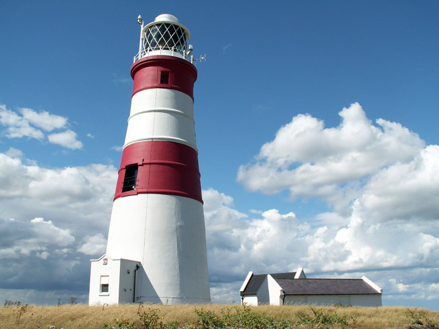 Orford Ness lighthouse The lighthouse on Orford Ness was built in 1792 by Lord Braybroke. Since 1837 it has been operated by Trinity House.